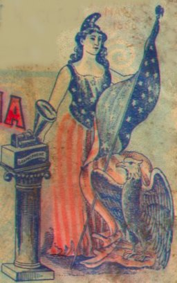 Columbia - national personification of the United States. Picture from late 19th century Columbia Records phonograph cylinder case in Infrogmation's collection; scanned and uploaded to Wikipedia by him on 2 July 2003.